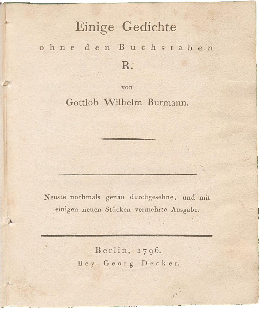 Title page of the 1796 edition